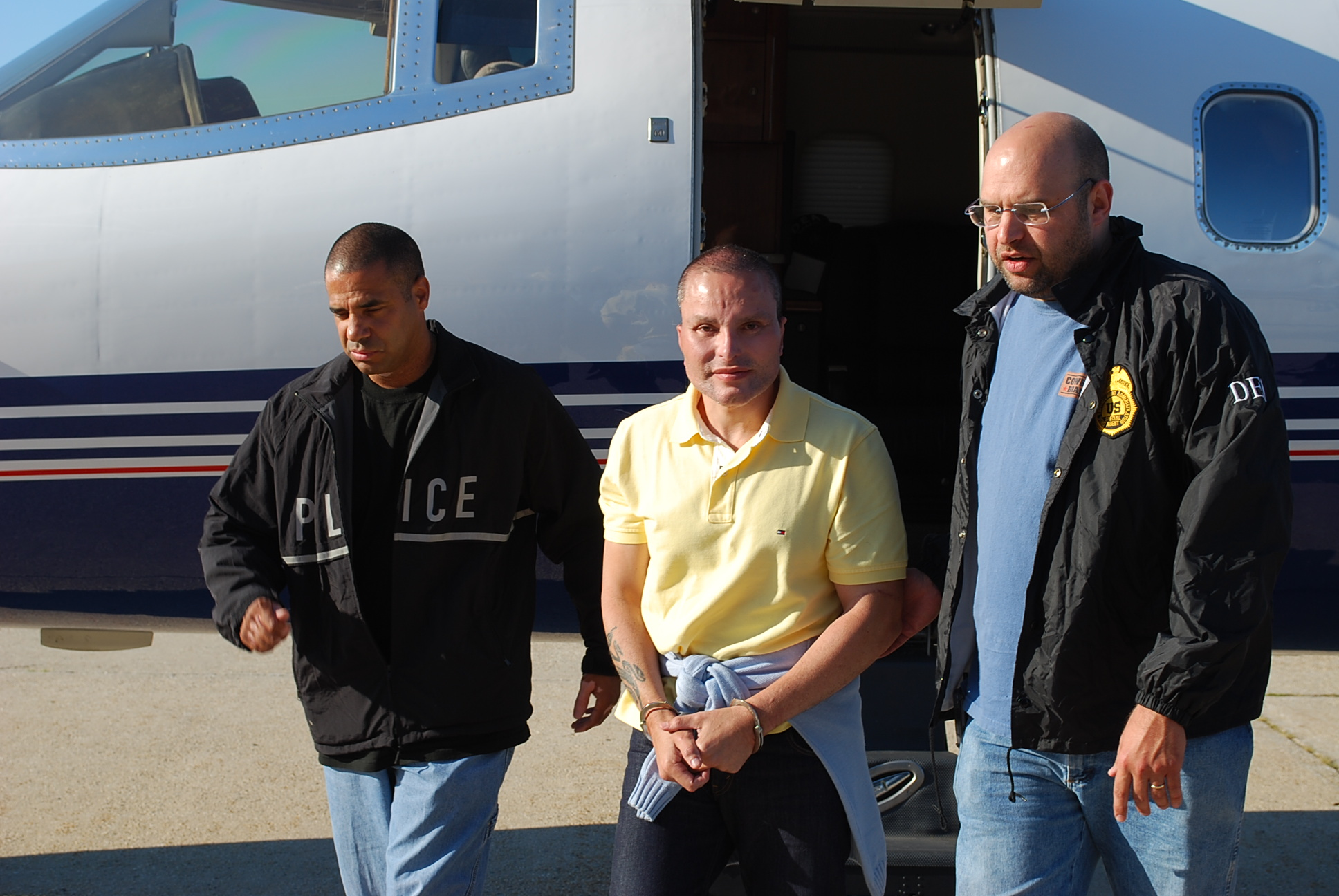 August 25, 2008 - Juan Carlos Ramirez-Abadia, a/k/a “Chupeta,” one of the leaders of Colombia’s most powerful cartel, known as the “Norte Valle Cartel," was extradited on this date to face federal charges in the Eastern District of New York and the District of Columbia. Ramirez-Abadia (center) was arrested by the Brazilian Federal Police in August 2007 and at the time, the U.S. State Department was offering an award of up to $5 million for information leading to his capture. After being convicted on Brazilian charges in a Brazilian court and sentenced to serve 30 years in prison, "Chupeta" was extradited to the U.S. where he now faces federal murder, drug trafficking, racketeering and money laundering charges.